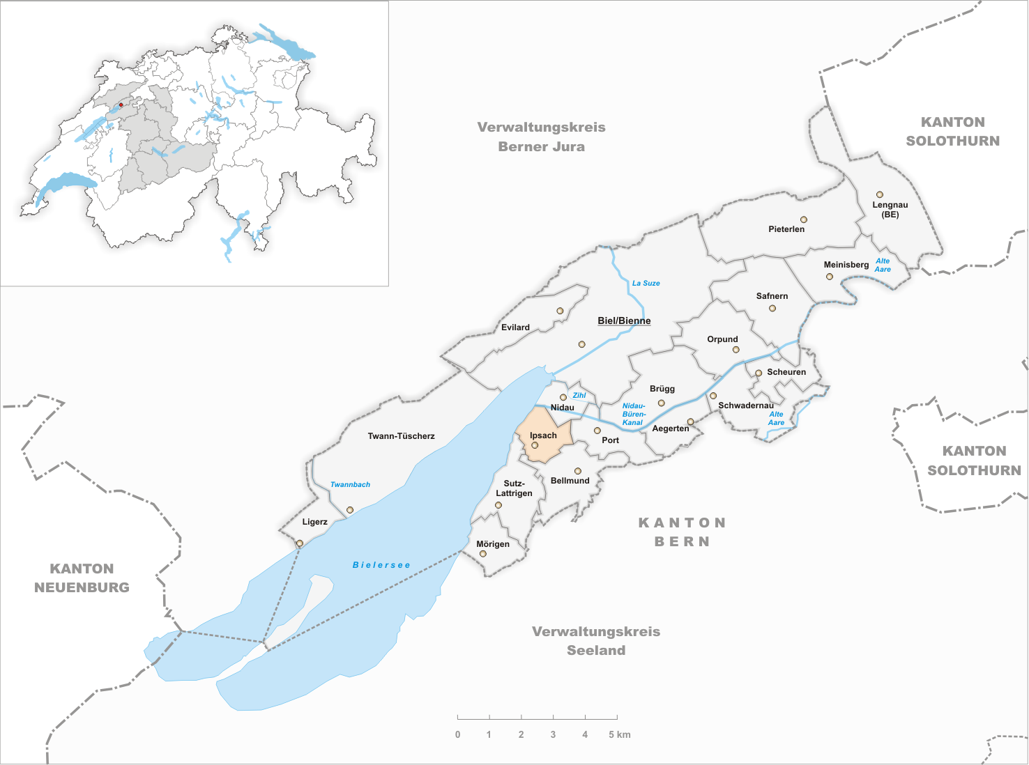 Municipality Ipsach